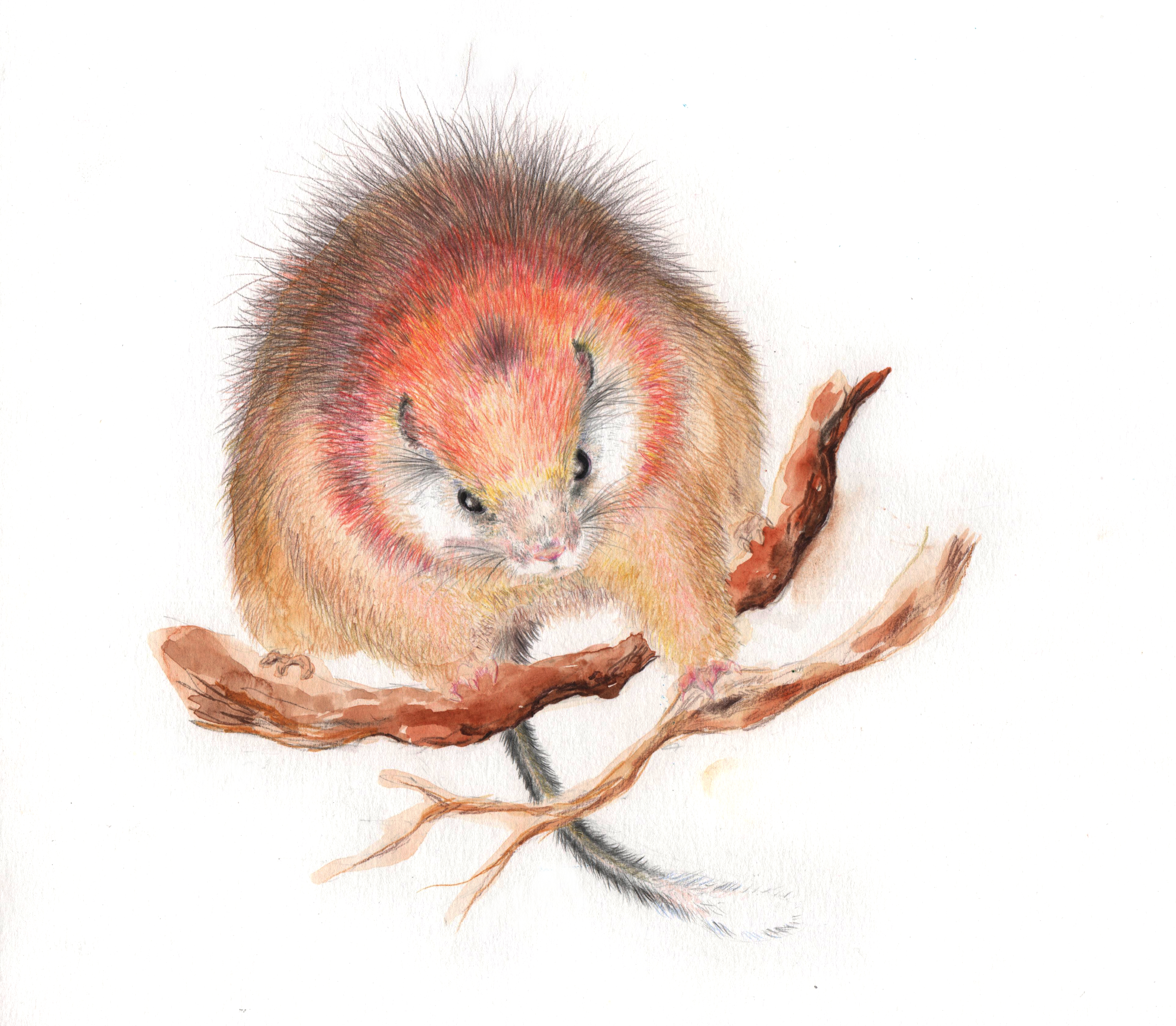 Scientific illustration of mammal Santamartamys, rodent rarely sighted. Their habitat lies in the nature reserve located in the Sierra de Santa María, Bogotá (Colombia). Appears to be comfortable at altitudes of 1000 to 2300 meters with a moist environment and moderate temperatures. Illustration made with ocher stain for background, colored pencils and digital retouching. With the advice of Alistair Ian Spearing Ortiz scientific translator. Sources: Patterson, B. & Lacher, T. 2011. Santamartamys rufodorsalis. In: IUCN 2013. IUCN Red List of Threatened Species. Version 2013.2. Red-crested tree rat (Santamartamys rufodorsalis) Wildsreen Arkive Spectacular Mammal Rediscovered after 113 Years - First Ever Photographs Taken; Bogotá, 18 May 2011